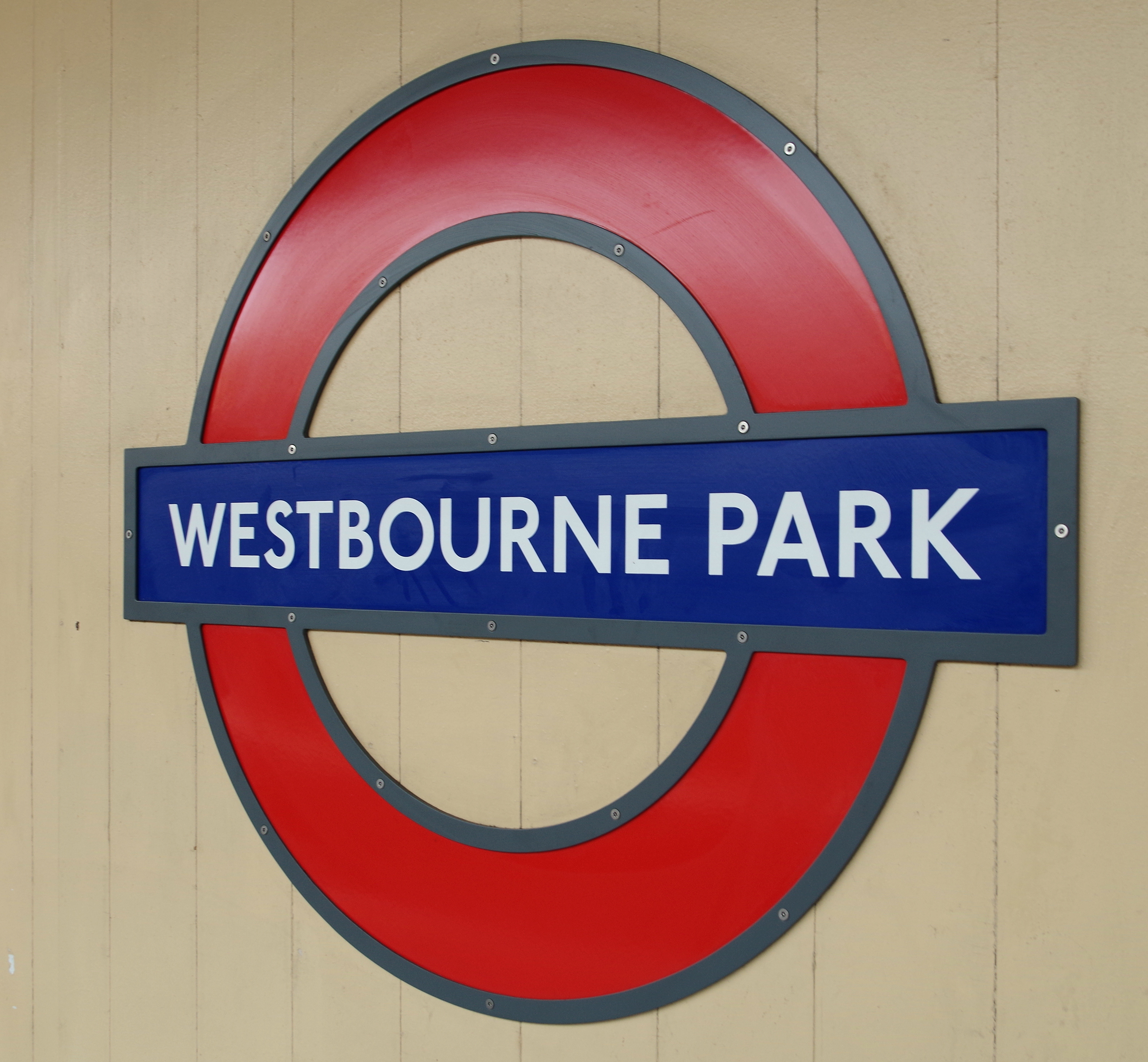 A London Underground roundel at Westbourne Park tube station.